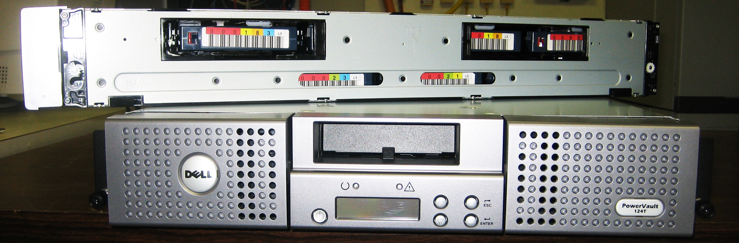 Dell PowerVault 124T Tape Autoloader. Holds up to two magazines which hold 8 tapes per magazine. The tapes in the picture are LTO3